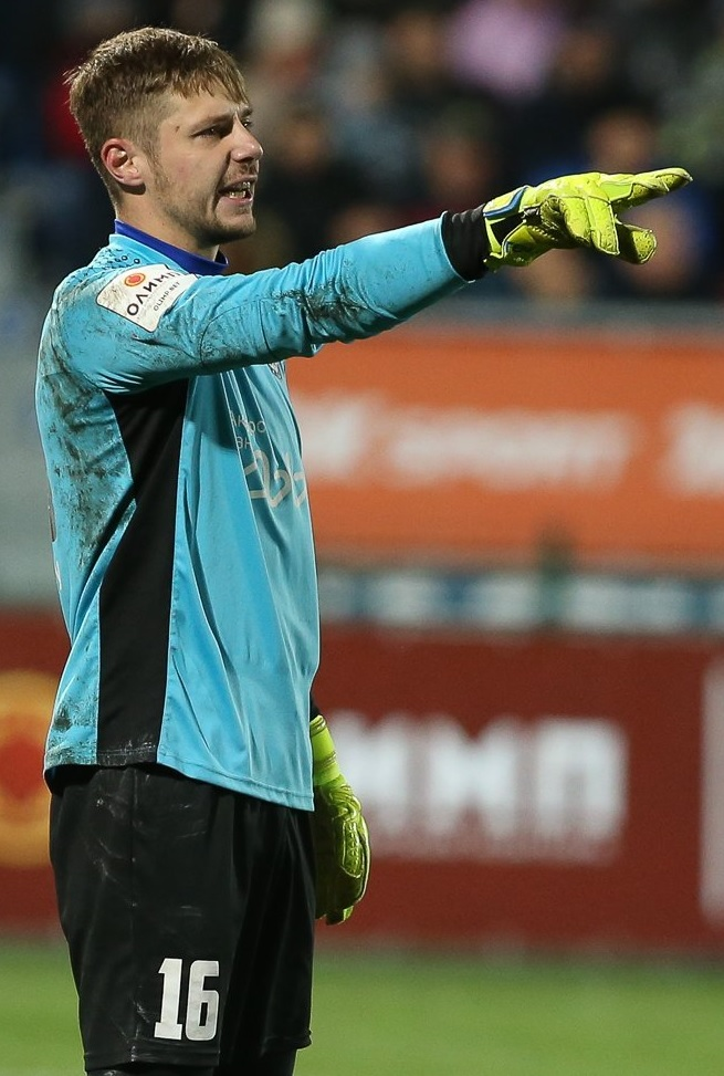 Aleksandr Kobzev with FC KAMAZ Naberezhnye Chelny in a game against FC Spartak Moscow.